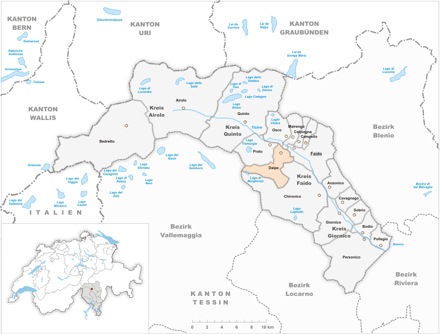 Municipality Dalpe